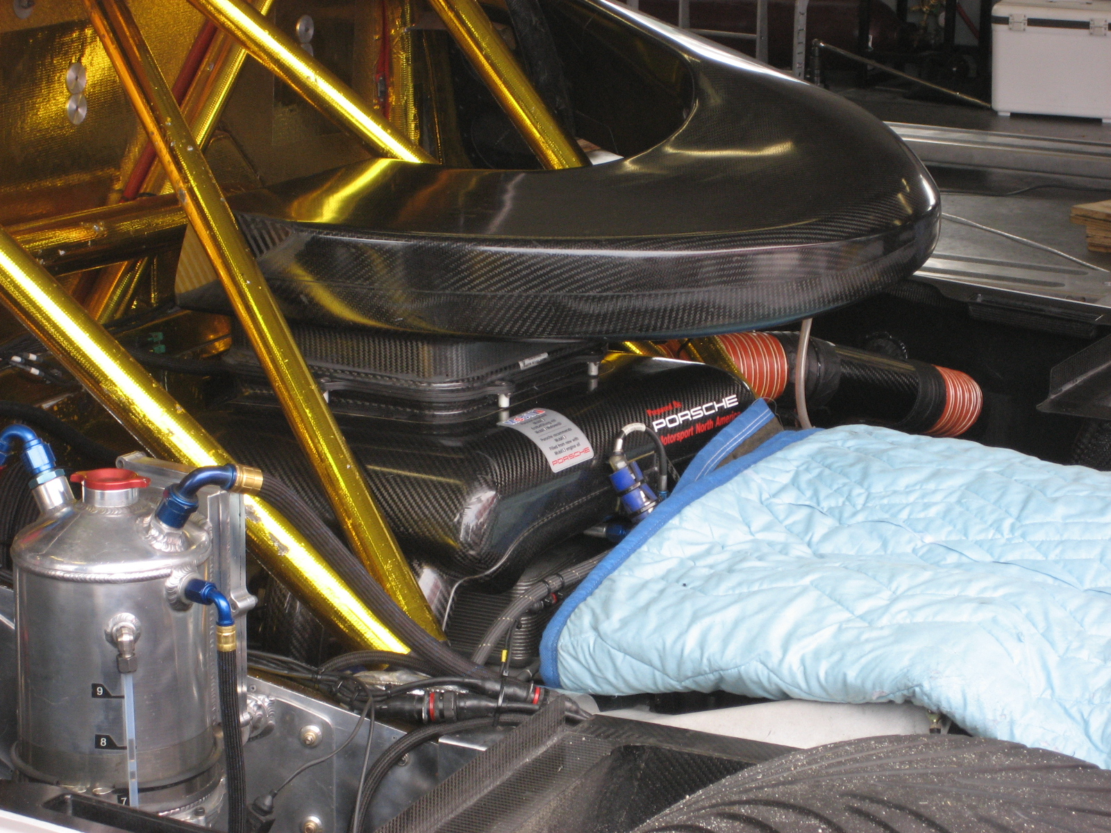 Photograph I took of a Daytona Prototype's Porsche engine at the 2007 Rolex 24 at Daytona.